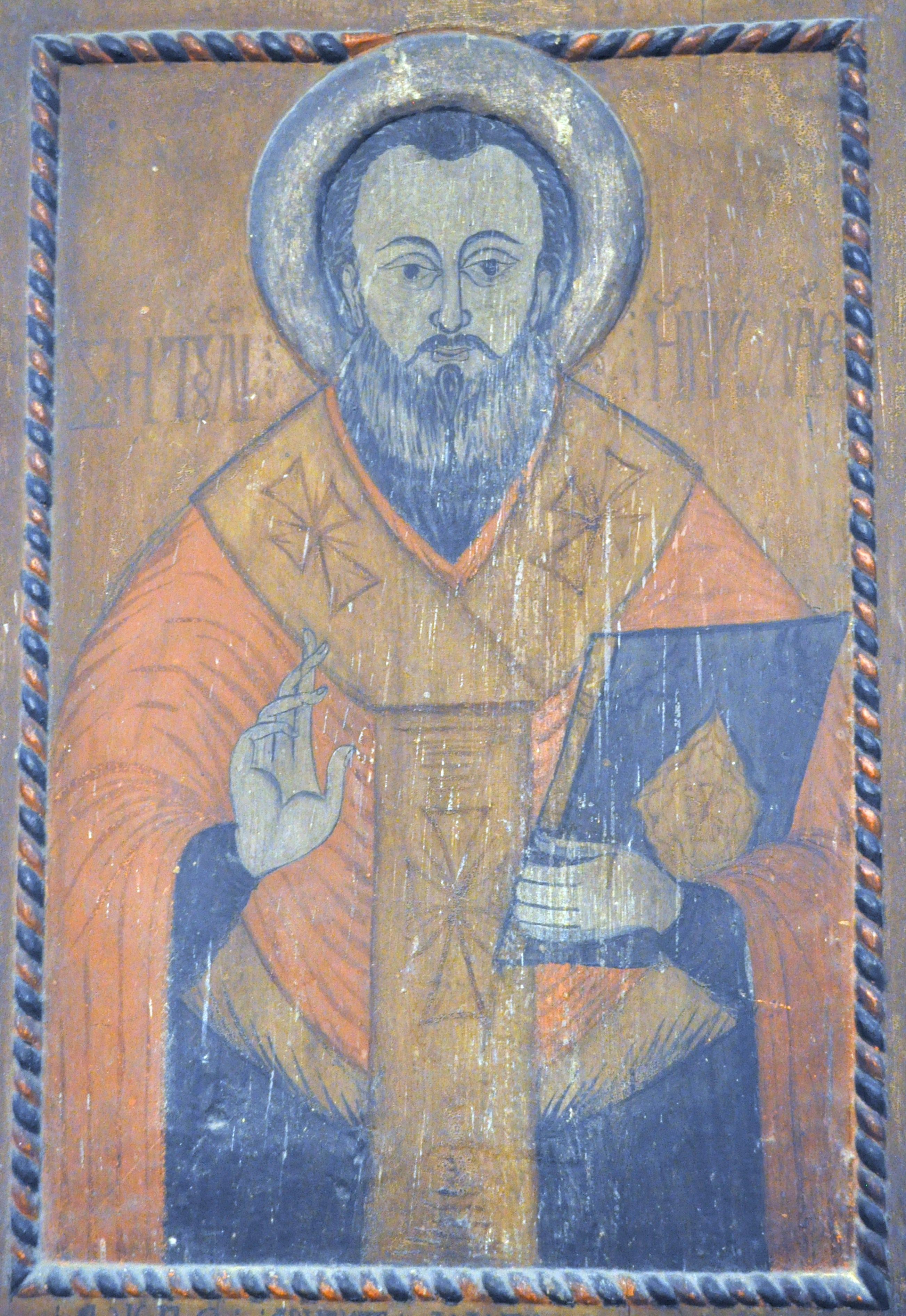 Old icon that belonged to the wooden church in Muncel, Cluj county, Romania